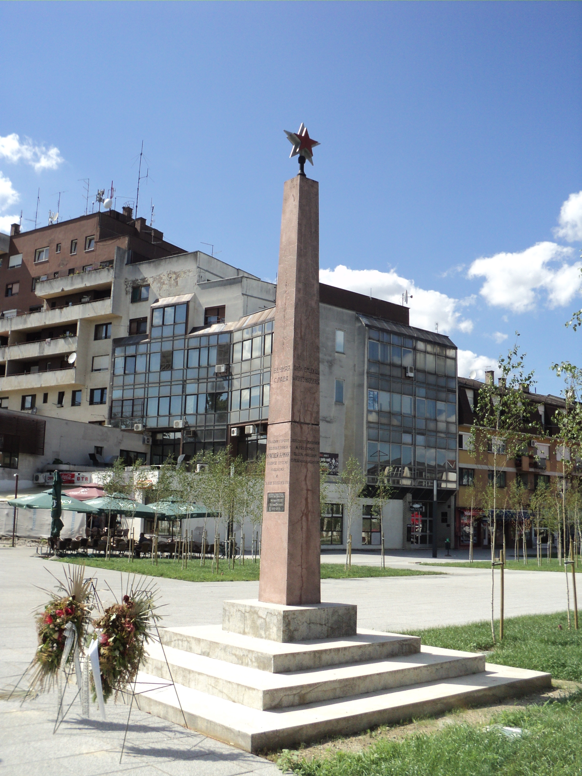 Red Army memorial, Center of Beli Manastir, Croatia.